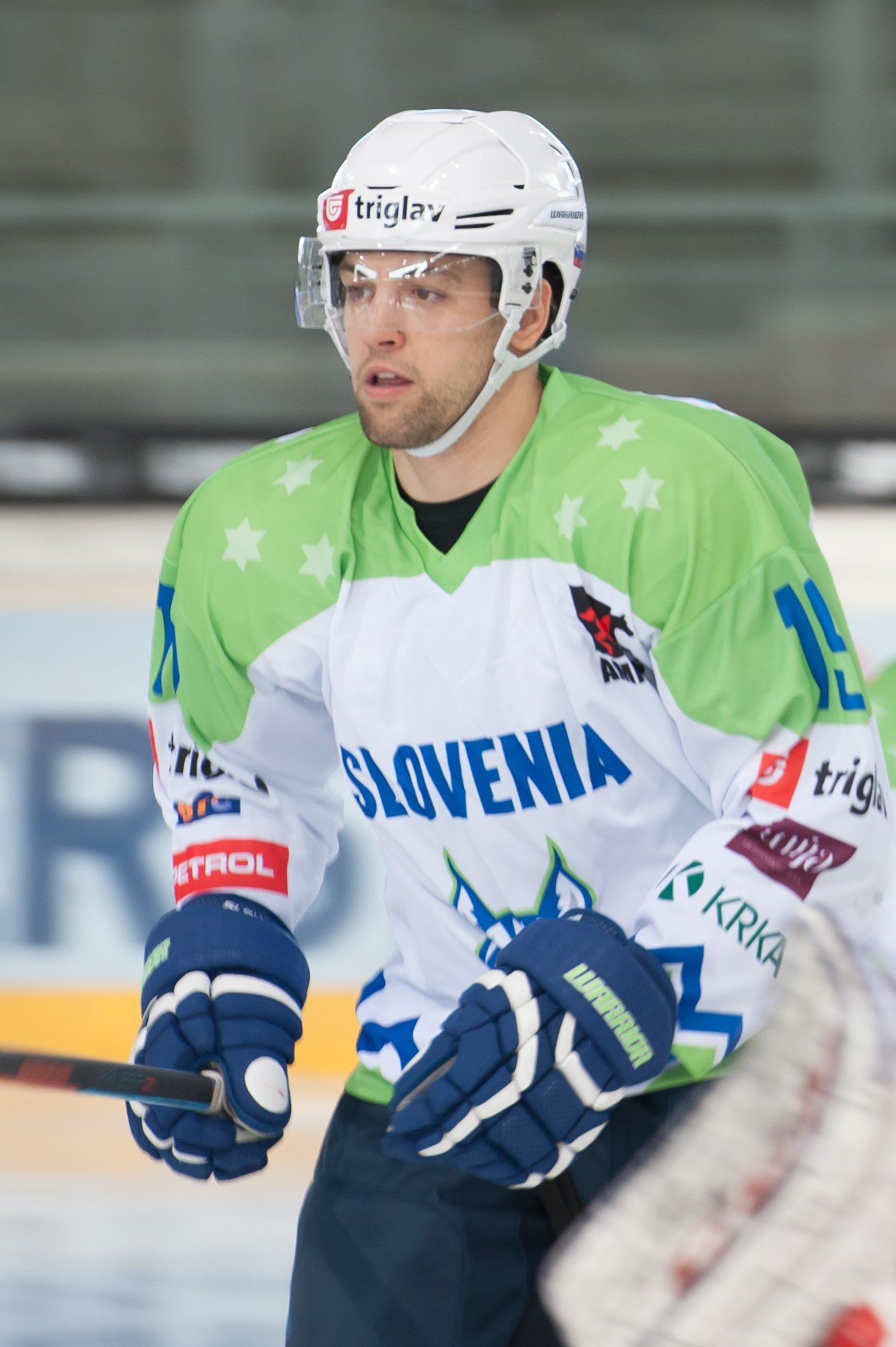 Euro Ice Hockey Challenge Vienna, February 7, 2015, Italy vs. Slovenia